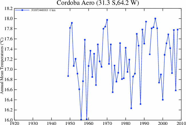 Climate graph of 1949 2008 air average temperaturas at Airport of Pajas Blancas, Córdoba province, Argentina